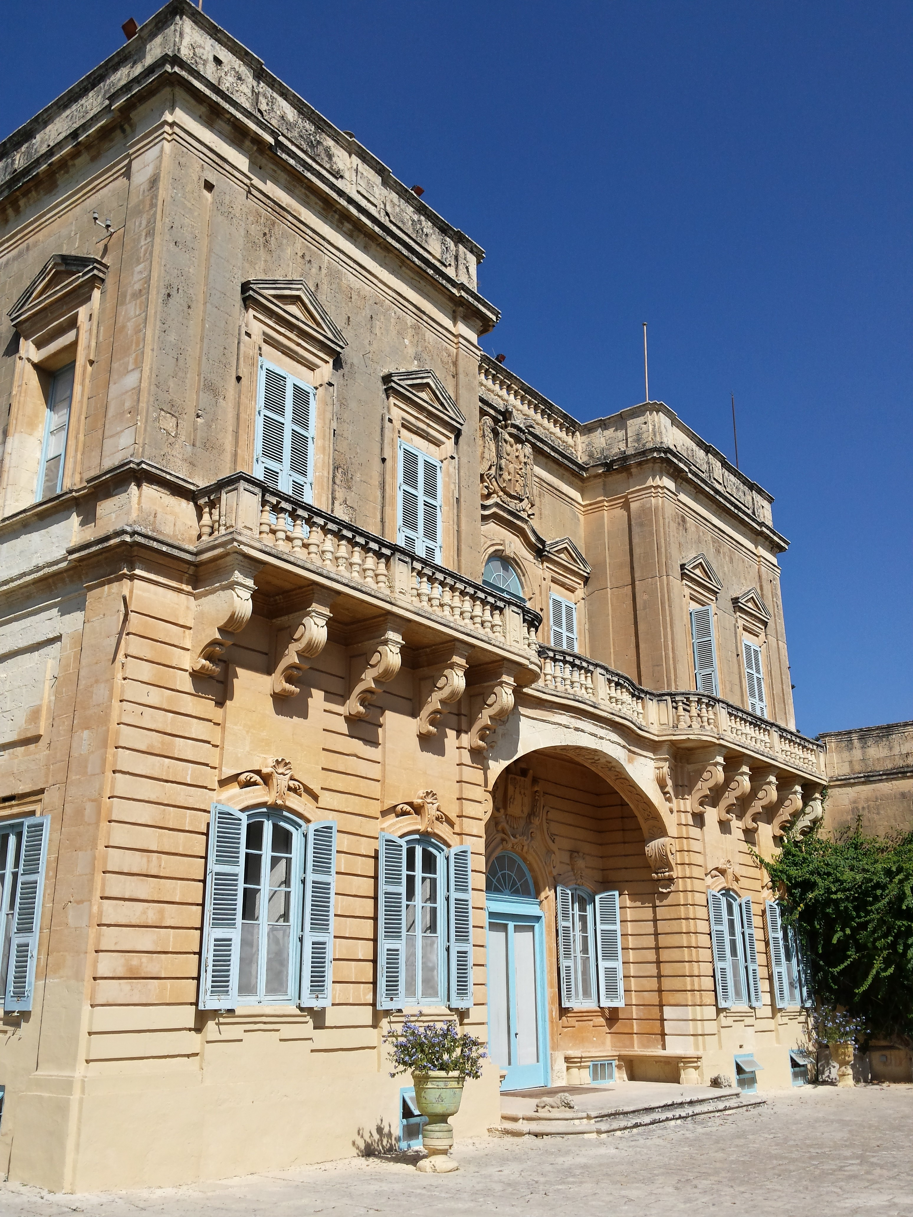 The main (east) façade of Villa Bologna